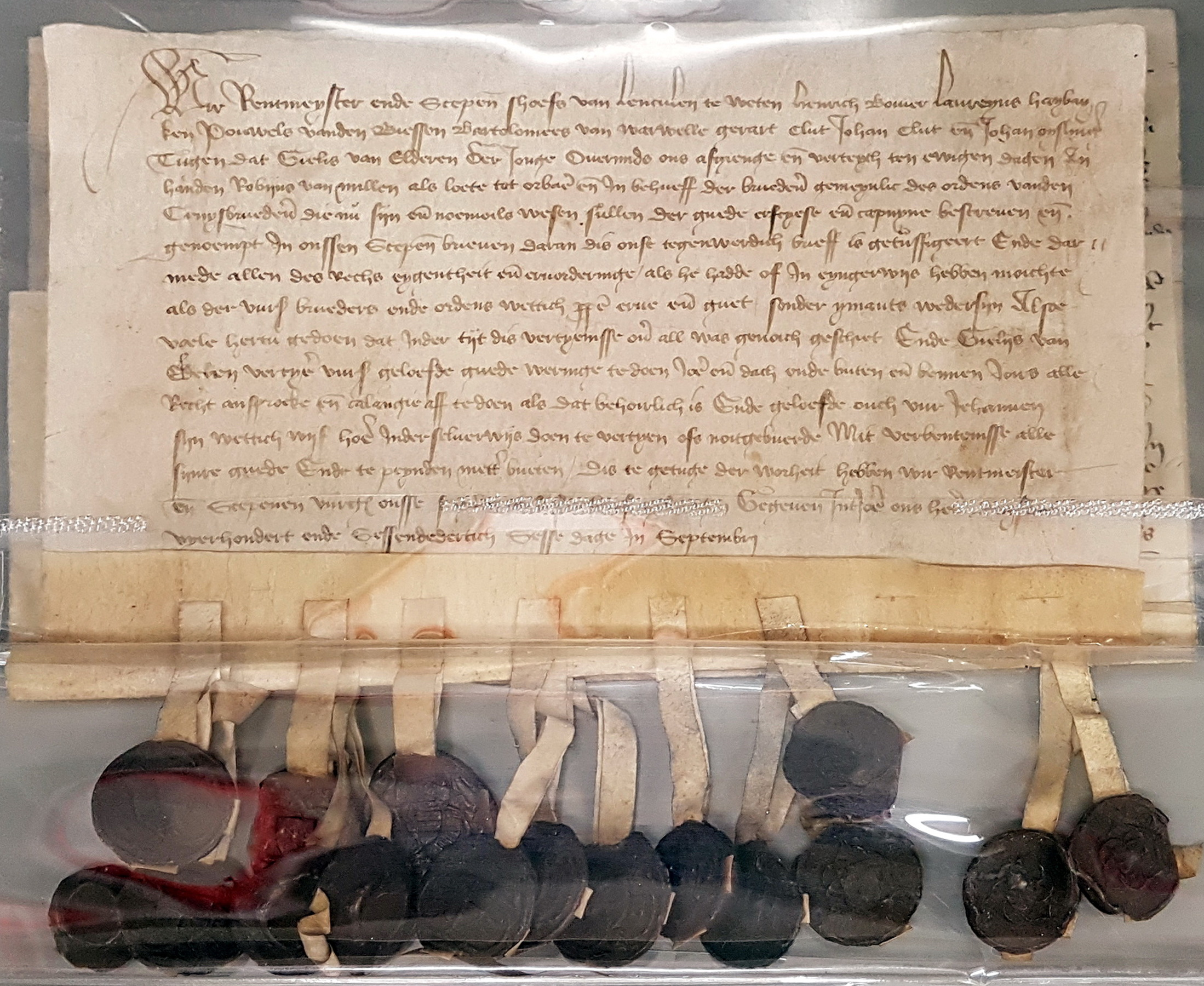 Document with attached seals in the Kruisherenarchief, the archives of the former Monastery of the Croziers or Crutched Friars (1438-1796) in Maastricht in the Regionaal Historisch Centrum Limburg (RHCL), Maastricht, the Netherlands. Although not the most important, it is considered the most complete monastery archives in the Netherlands, Belgium and the German Rhineland. Here: one of the oldest documents relating to the monastery, packed acid-free in Melinex, archival polyester sheets. It is the deed of 6 September 1436 that transferred a number of houses and land at Kommel from Egidius van Elderen to the Order of the Holy Cross, enabling them to establish their Maastricht monastery. The attached seals are from the witnesses.